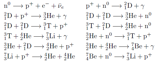 Nuclear reactions in primordial nucleosynthesis. Reaction process showing how protons, neutrons, and electrons formed into light elements in the early stages of the Big Bang. Process is on going however this work ends when stars start forming since that is the end of nucleosynthsis.